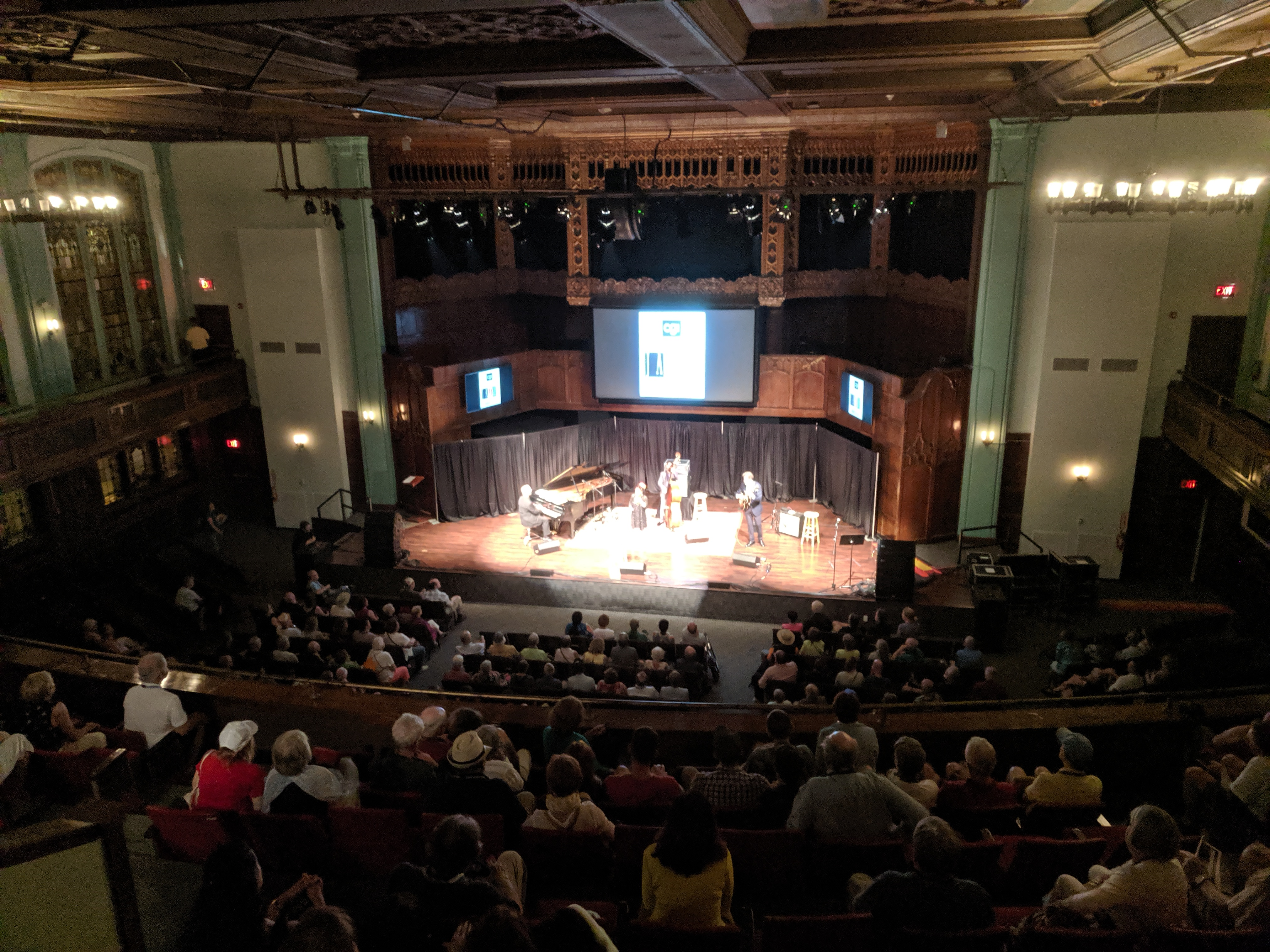 Catherine Russell (singer) performs as part of the Rochester International Jazz Festival 2019 in the Temple Building (Rochester, New York)